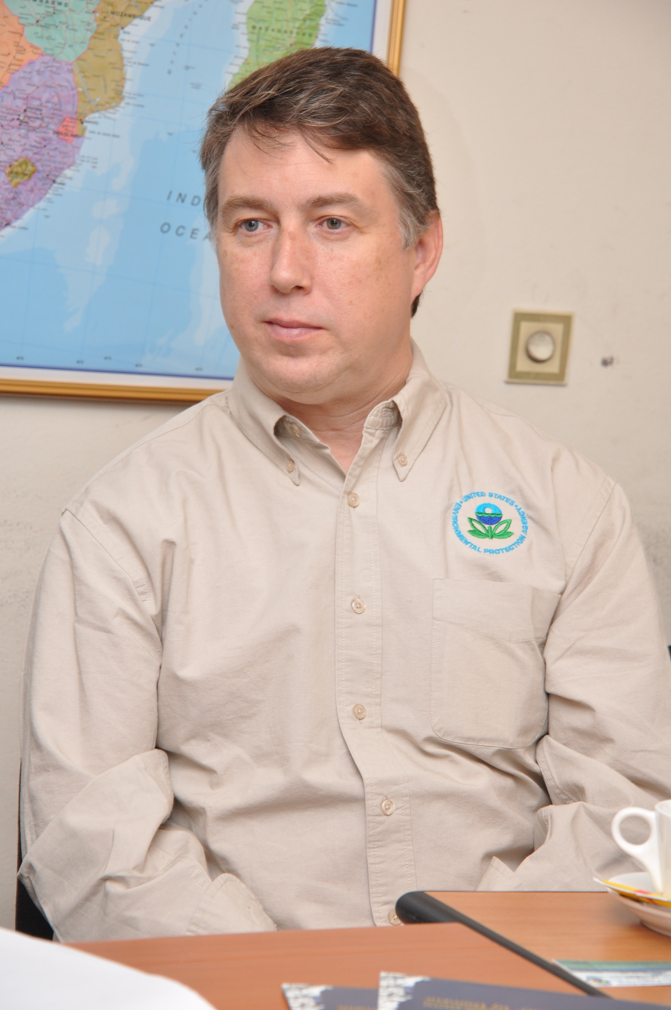 Paul Anastas at a meeting in Ethopia